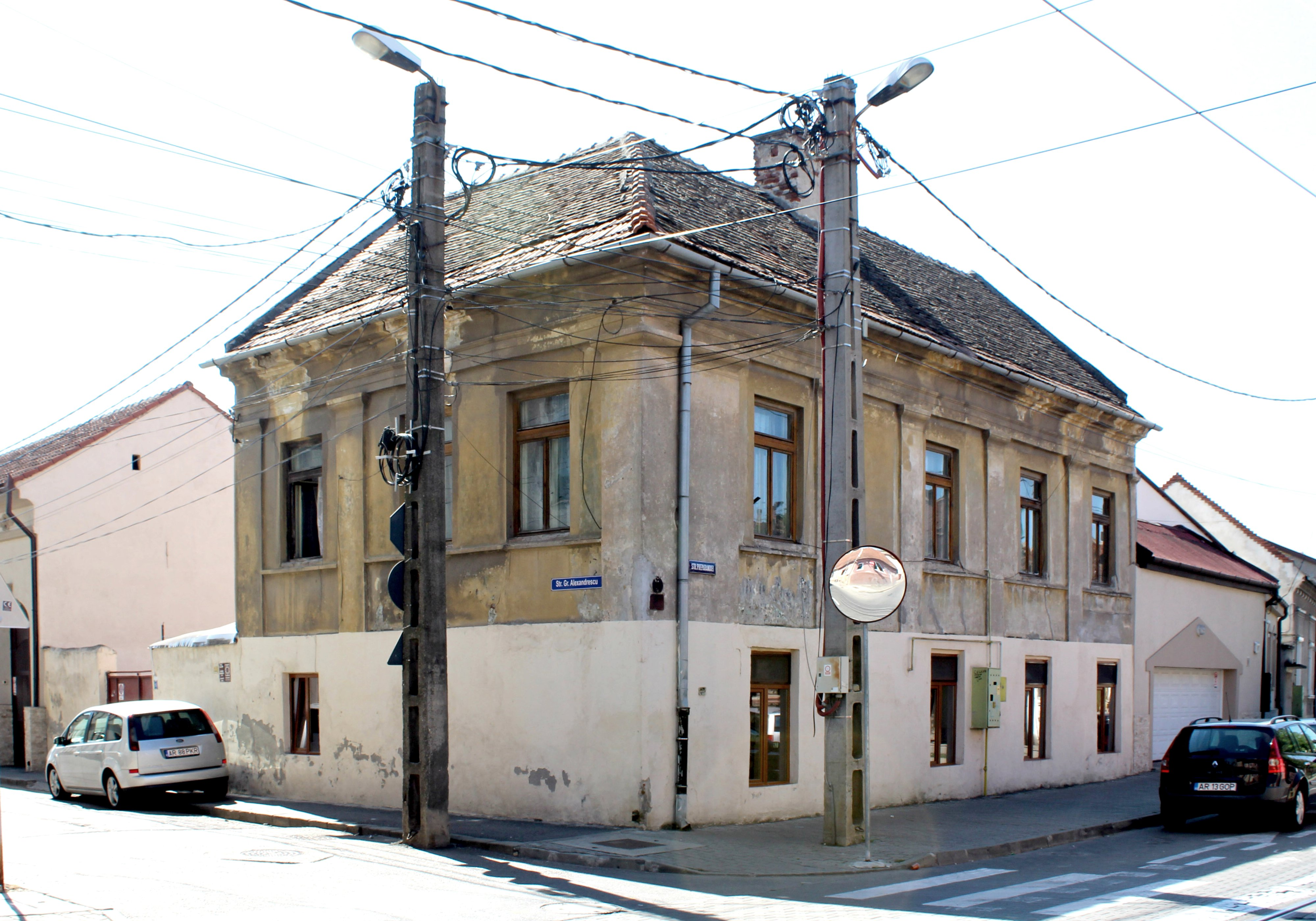 House in Arad, Romania, Str Grigore Alexandrescu no 16, built in the 18th century